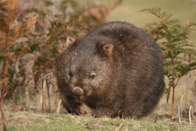 Narrawntapu National Park, Tasmania.